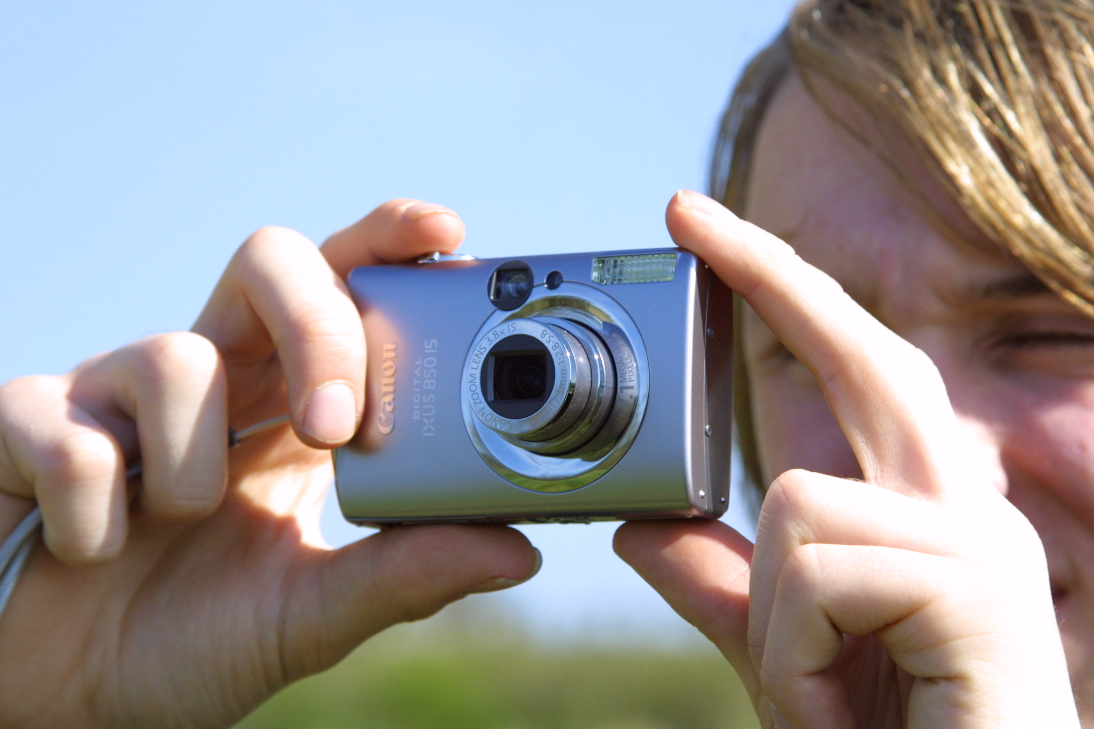 I took this photo myself and release it into the public domain. It is in breach of no copyright laws, nor wikipedia policy.